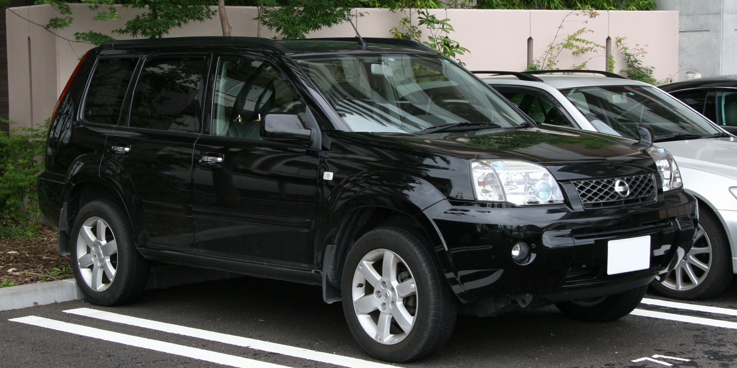 NISSAN XTRAIL